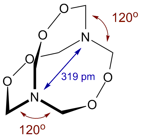 The structure of HMTD according to: William P. Schaefer, John T. Fourkas, Bruce G. Tiemann, "Structure of hexamethylene triperoxide diamine", Journal of the American Chemical Society 1985 107 (8), 2461-2463